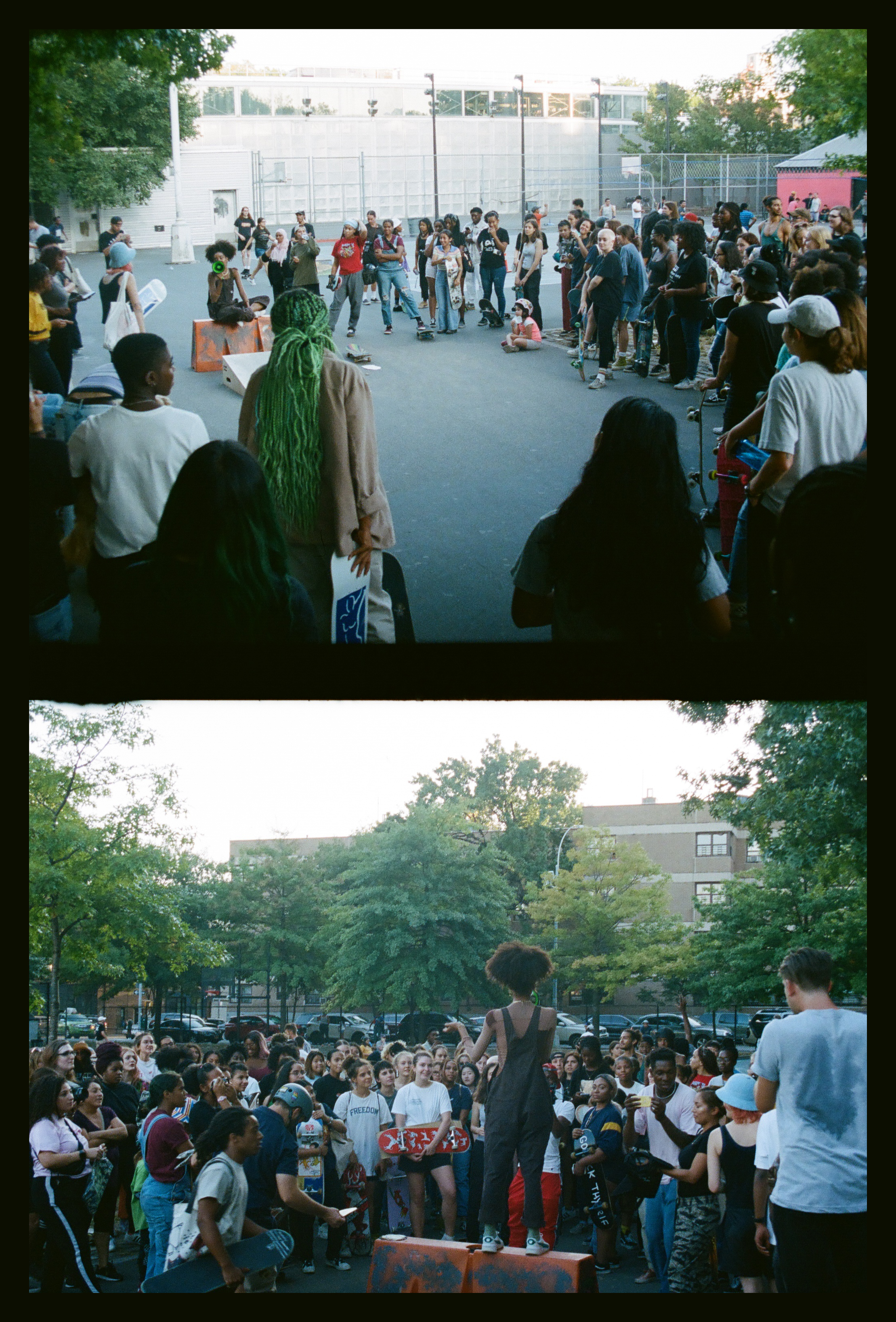 Briana King addresses the crowd at a Push Like a Girl event at Blue Park - Martinez Playground - Brooklyn, NY - 2019 - shot on Yashica Samurai half-frame camera